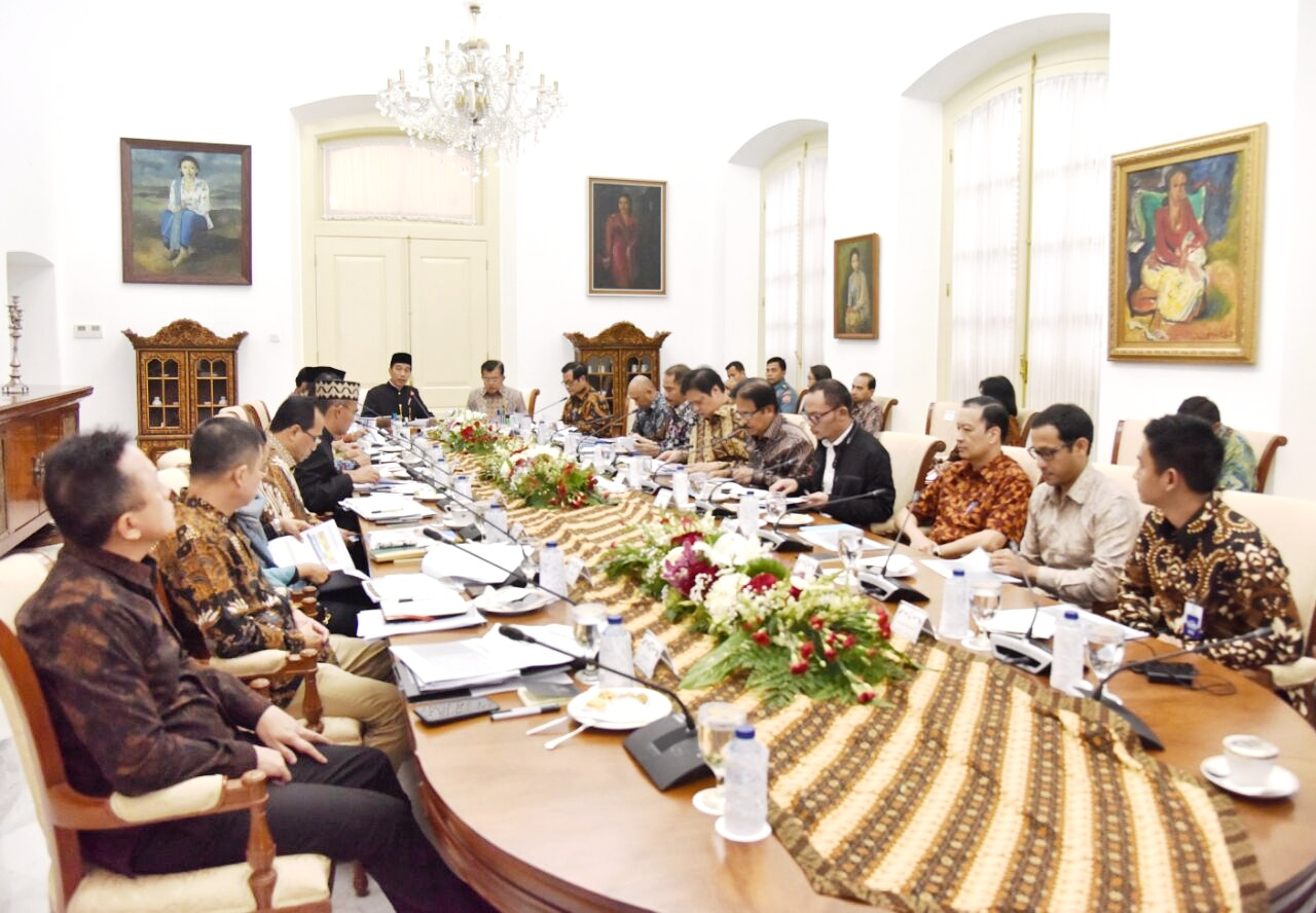 Belva Devara Rapat Kabinet 2017